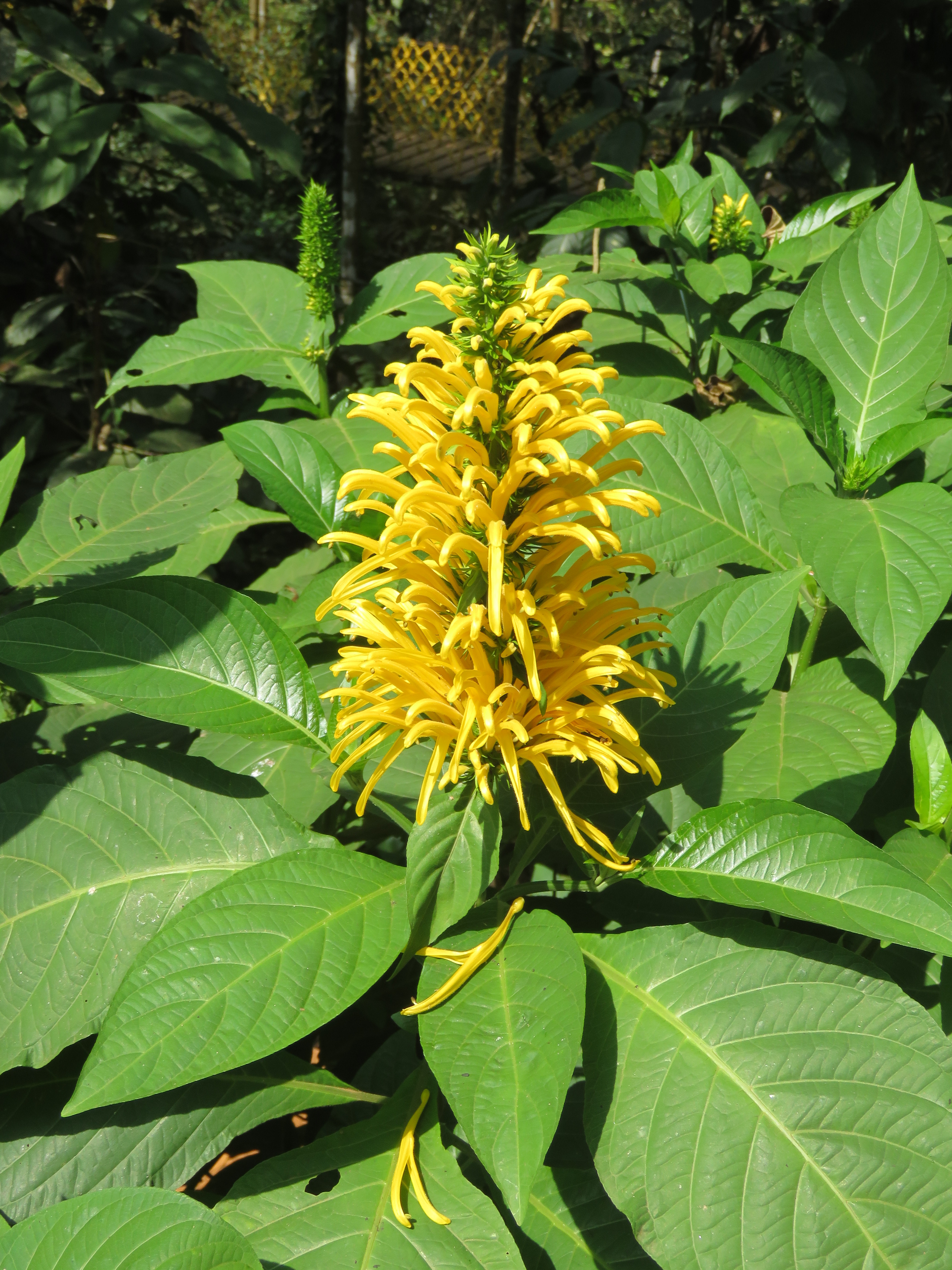 Photos by Vinayaraj from Wayanad 2019